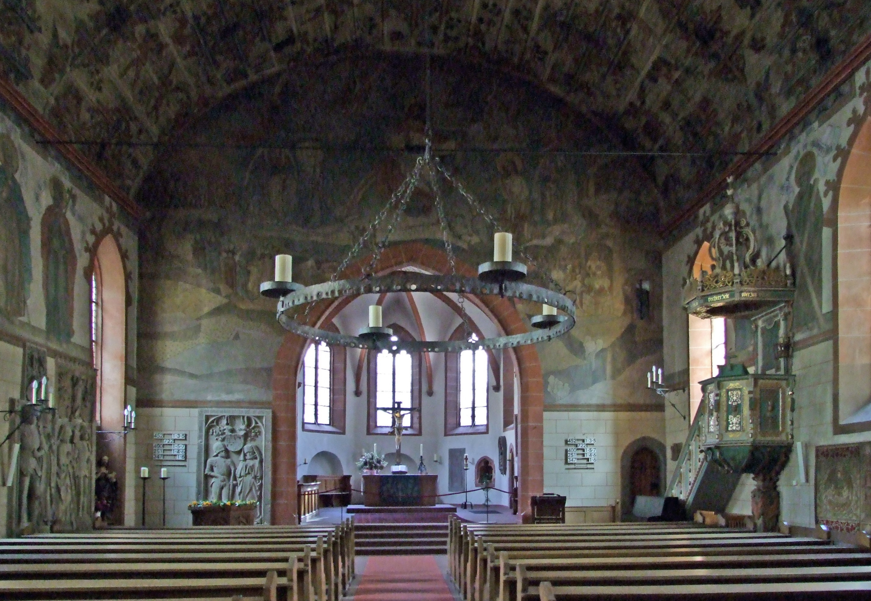 Stadtkirche St. Johann (Protestant) in Kronberg im Taunus, Germany